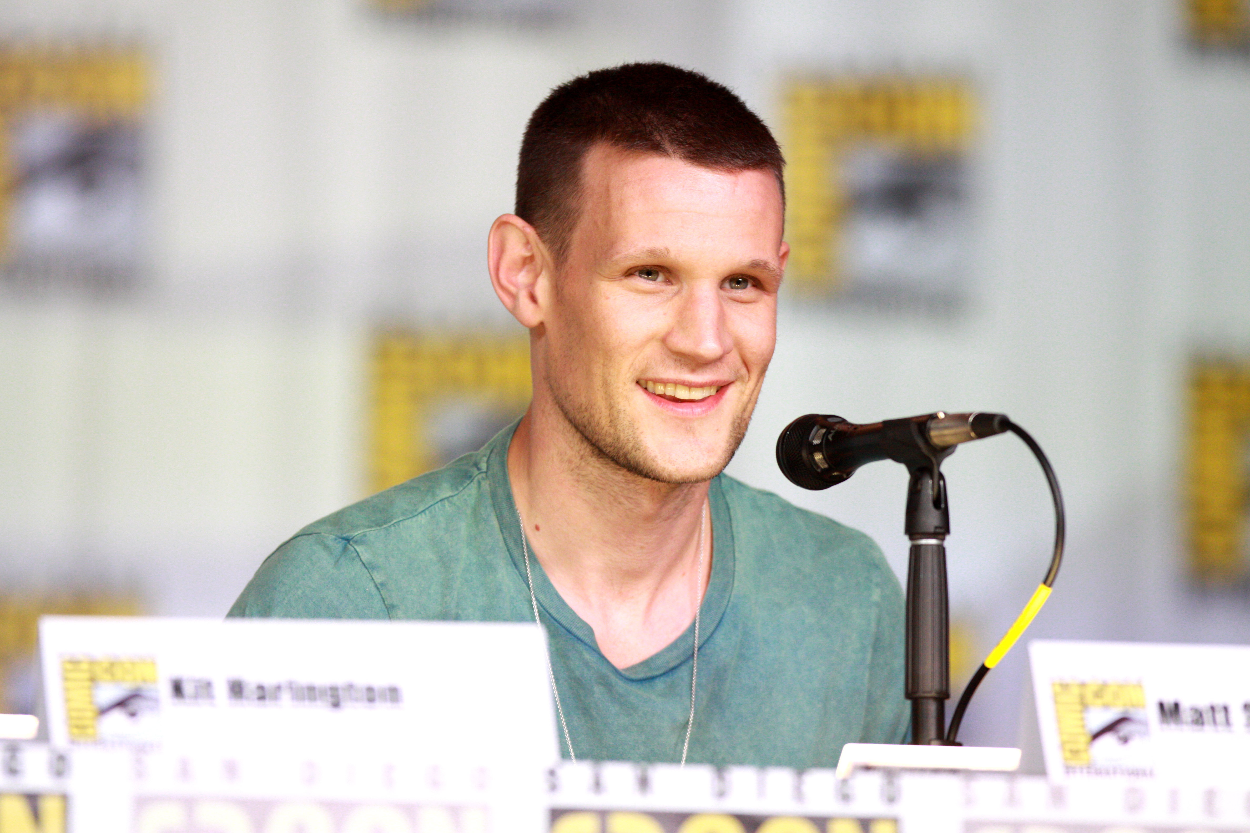 Matt Smith speaking at the 2013 San Diego Comic Con International, for Entertainment Weekly's "Brave New Warriors" panel, at the San Diego Convention Center in San Diego, California.